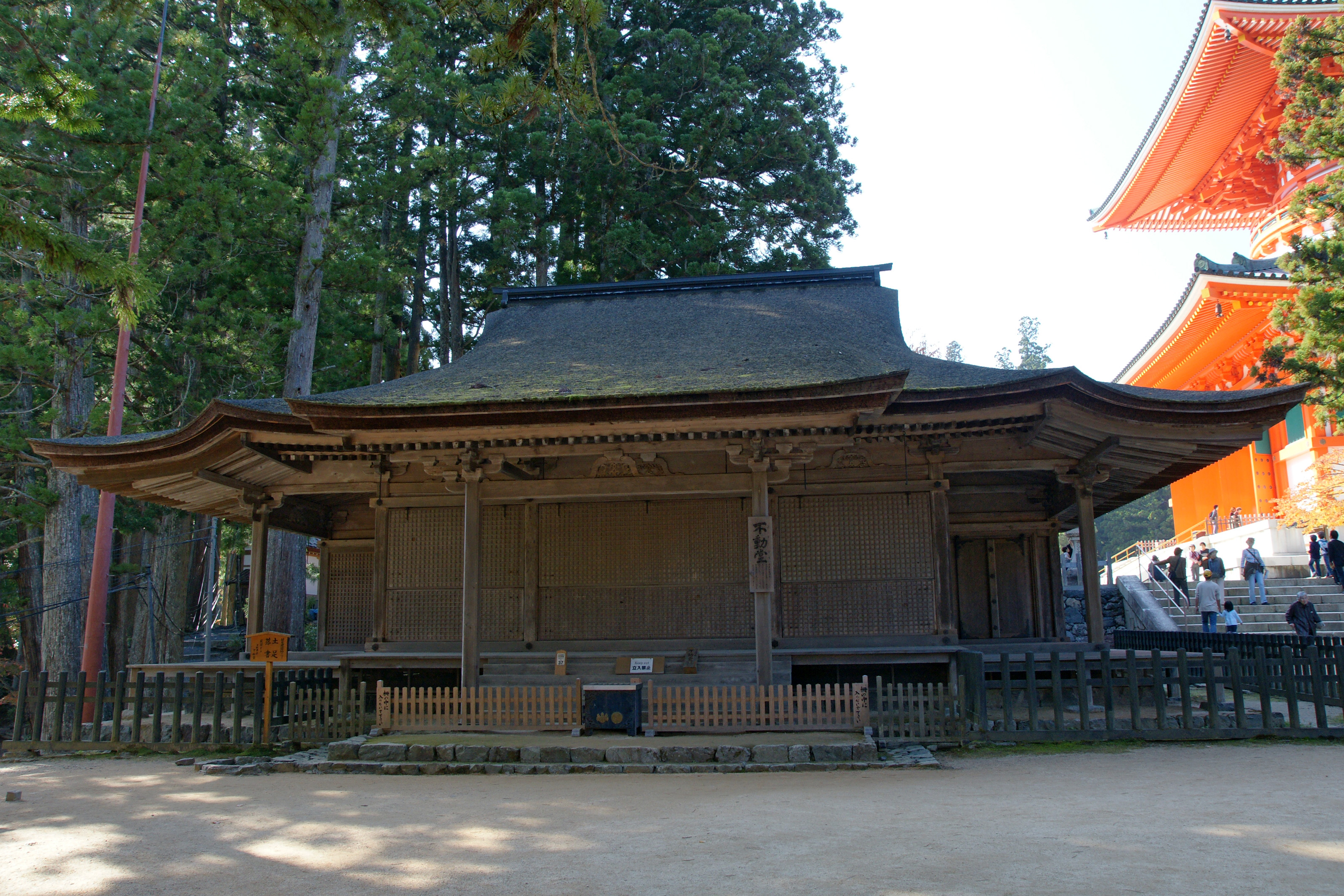 Danjōgaran in Mount Kōya, Wakayama prefecture, Japan. This photograph is the Fudodo (Japan's National Treasure). It was built in 1197.